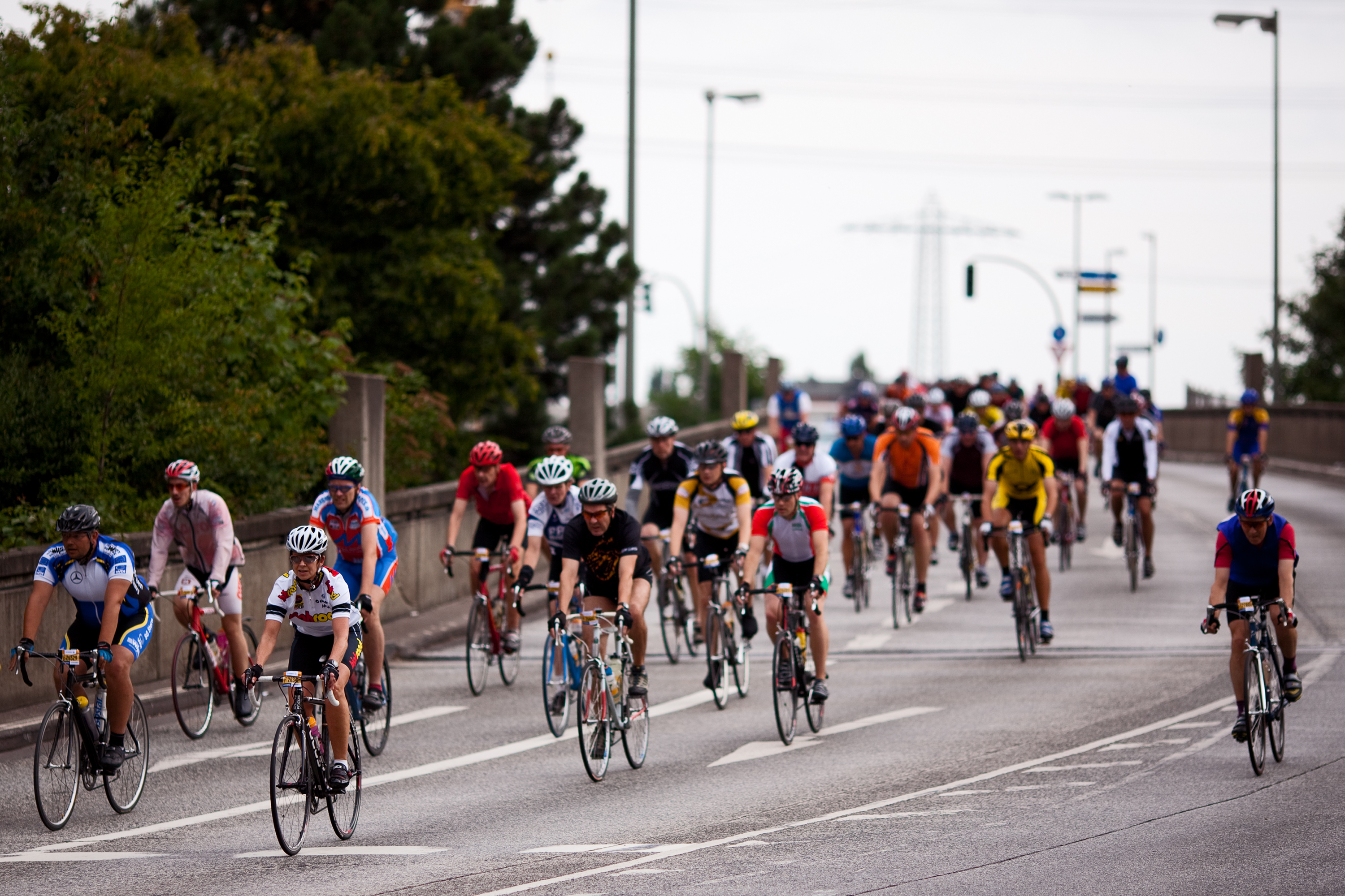 Non-professionals (Jedermannrennen) of the Vattenfall Cyclassics 2010 in Hamburg.